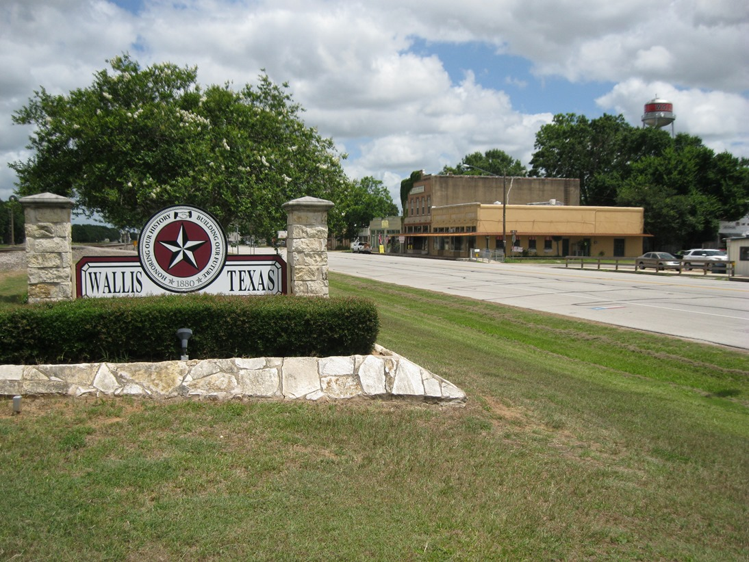 Photo shows Wallis, Texas sign, part of the business district along Highway 36 and the Wallis water tower. View is to the southeast.